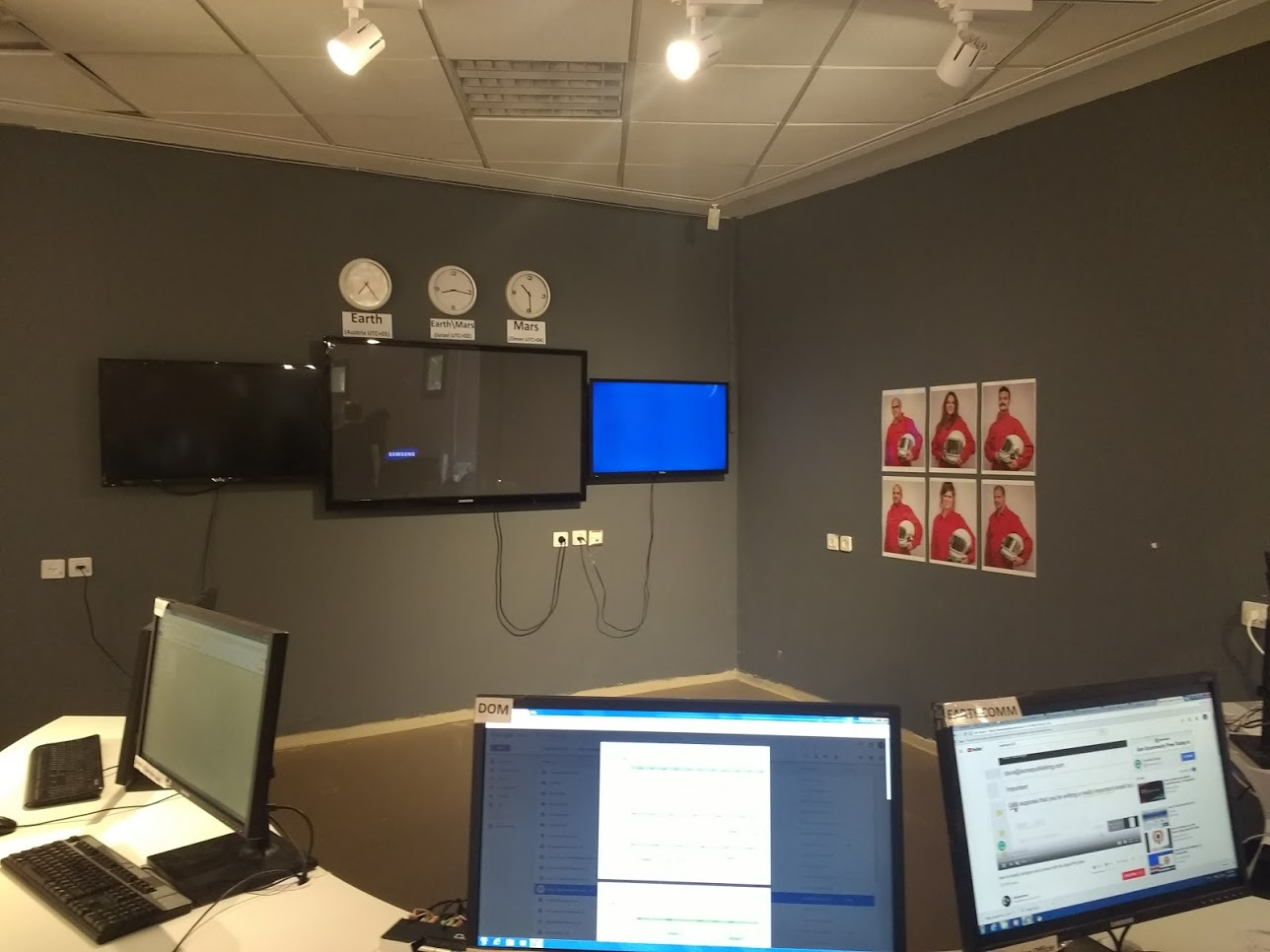 D-Mars analog mission control room. D-Mars first mission was on February 2018. The mission was in the Ramon Crater while control room was in Weizmann institute. All communication were with 10 minute delay. on the wall are the images of the first mission Ramonauts